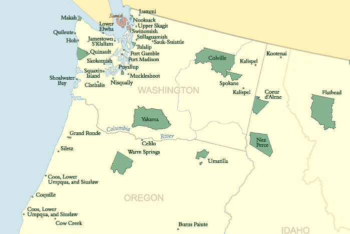 Map of Native American tribal territories in Washington, Oregon, Idaho, and Montana — NW U.S.